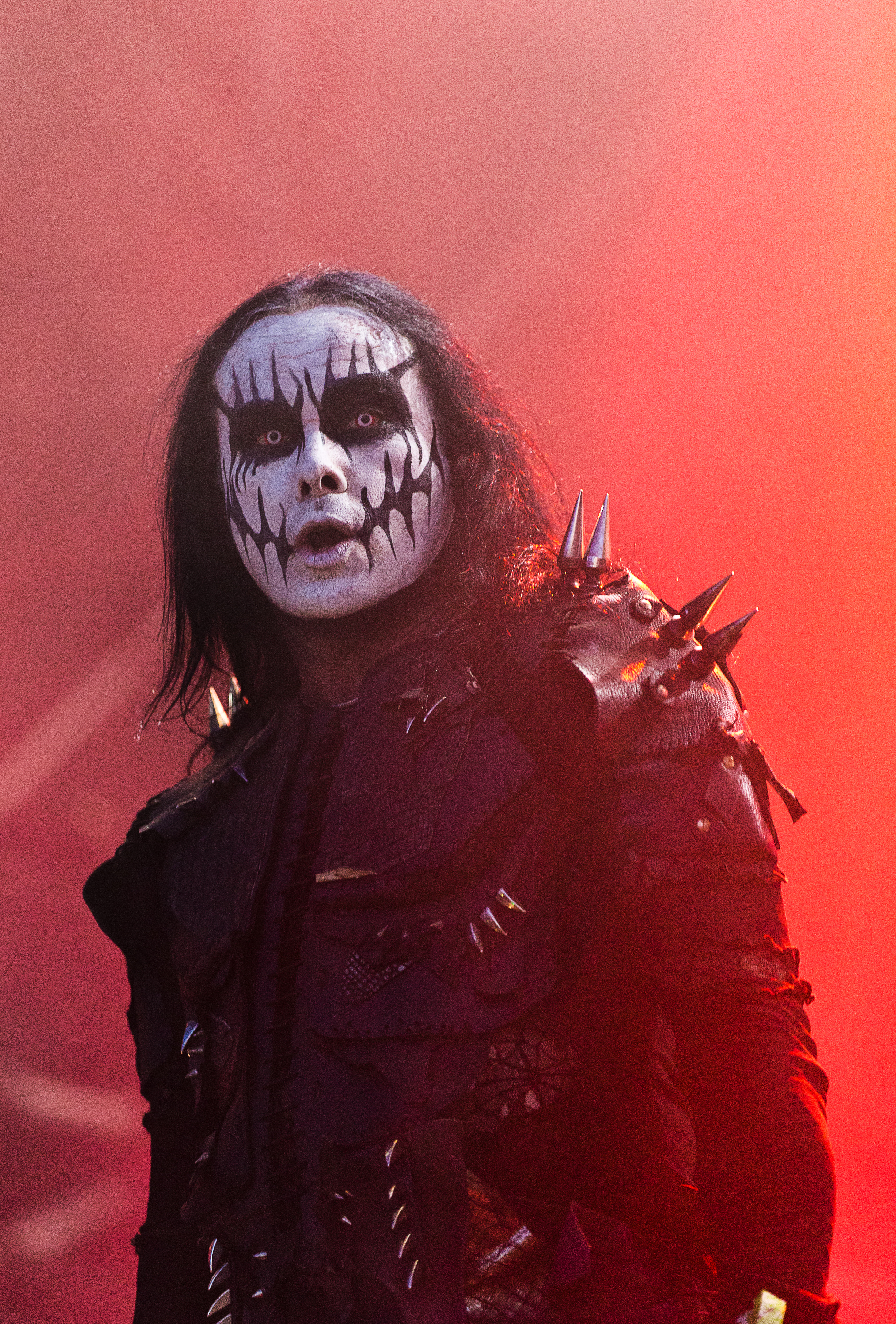 The British metal band Cradle of Filth at the Rockharz Open Air 2015 in Ballenstedt/Germany.